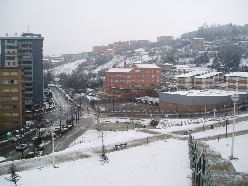 Jesus Galindez avenue in Txurdinaga (Bilbao).